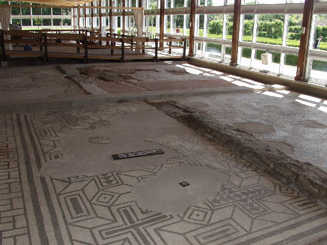 Fishbourne Palace. Fishbourne Palace with its fantastic mosaic floors.